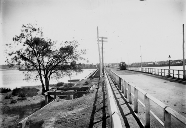 The Causeway in Perth, Western Australia in 1906. This causeway, which was made up of three bridges, was removed after the construction of the new Causeway in 1952.